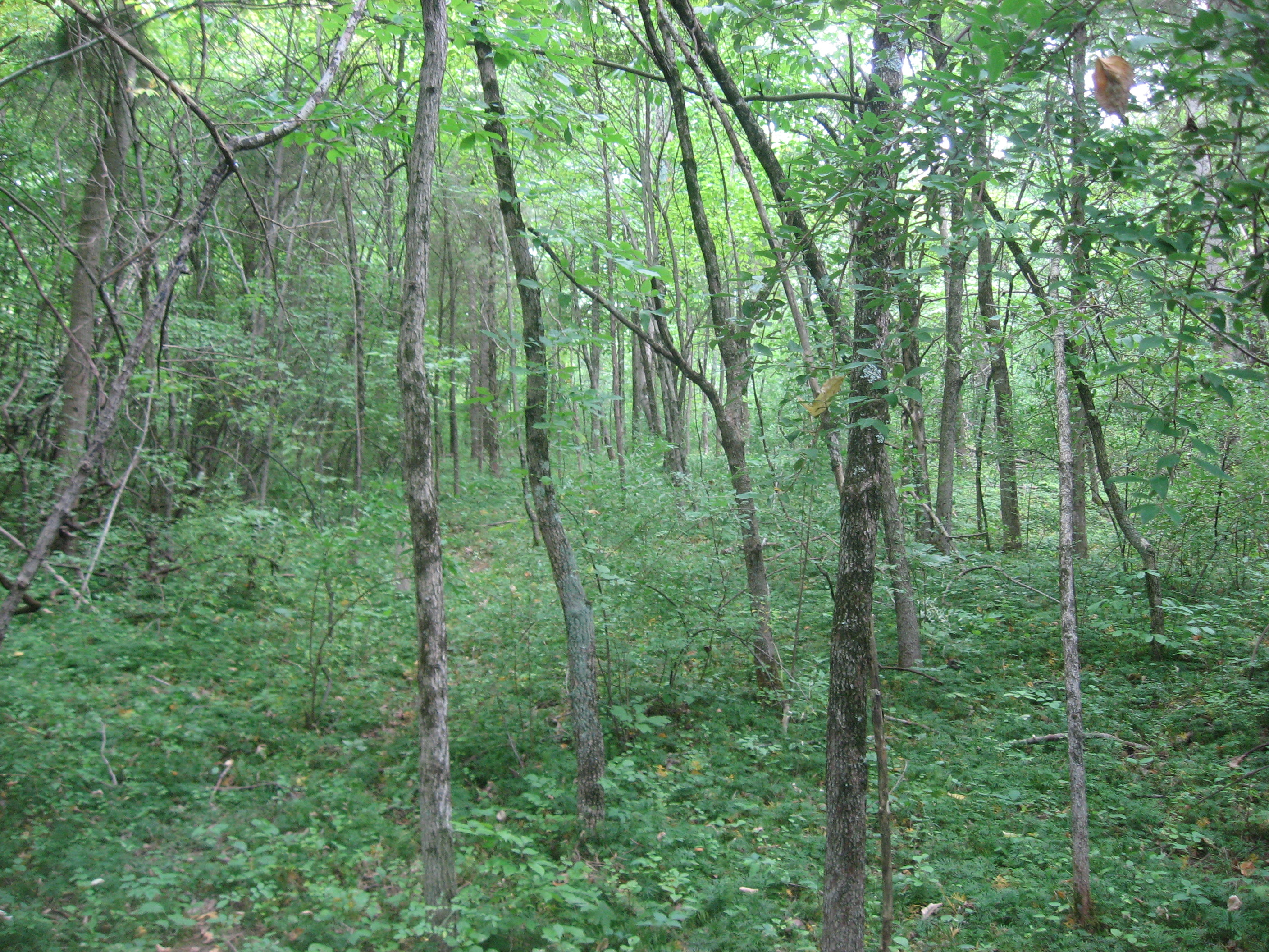 Woodland at the site of the Cowan Creek Circular Enclosure, located on a peninsula on the northern side of Cowan Lake at Cowan Lake State Park in Adams Township, Clinton County, Ohio, United States. Built by Adenan peoples but now so badly eroded that it cannot easily be seen, the enclosure is an important archaeological site and has been listed on the National Register of Historic Places.